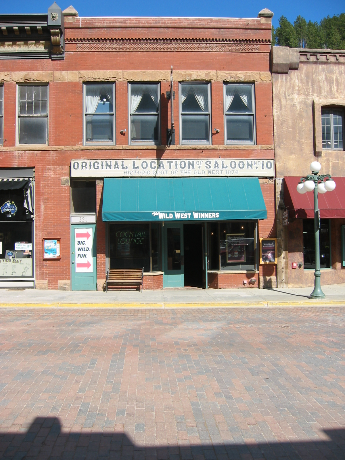 Possible location of the original Nuttal & Mann's saloon where Wild Bill Hickok was killed, 624 Main Street in Deadwood, South Dakota (1898) - J.W. Gibbs, Architect - I.H. Chase moved his clothing store to this location from 604 Main Street in 1898. When he moved out in 1903, Frank X. Smith opened a beer hall here, which was reputed to be "a metropolitan resort." It later housed the Eagle Inn. The saloon where Wild Bill Hickok was killed (Carl Mann's Saloon No. 10) was probably in this general area though the actual location of the original business is unknown; the current Saloon No. 10 is a more recent establishment.